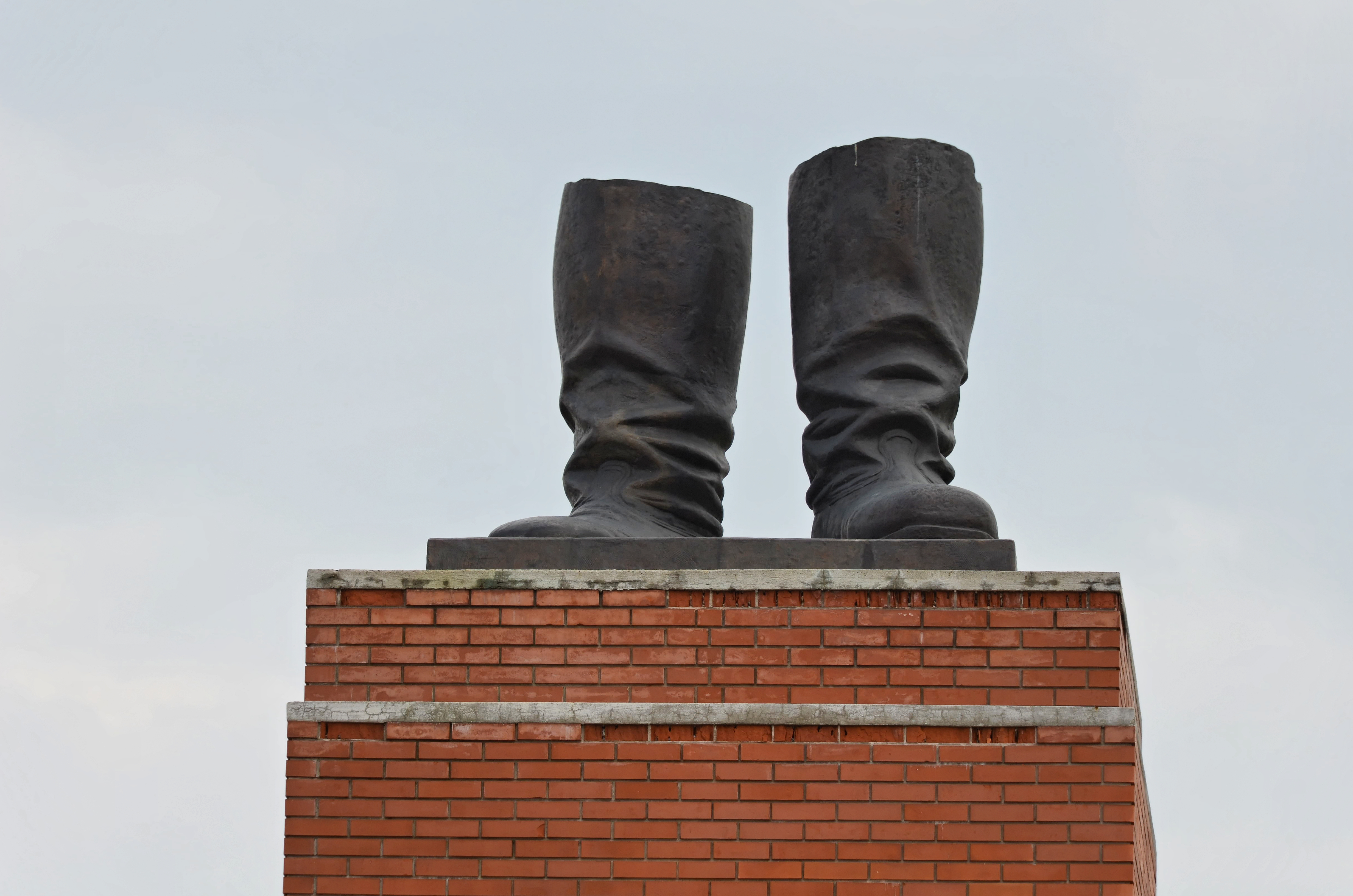 Staline 's boots. Memento park, Budapest